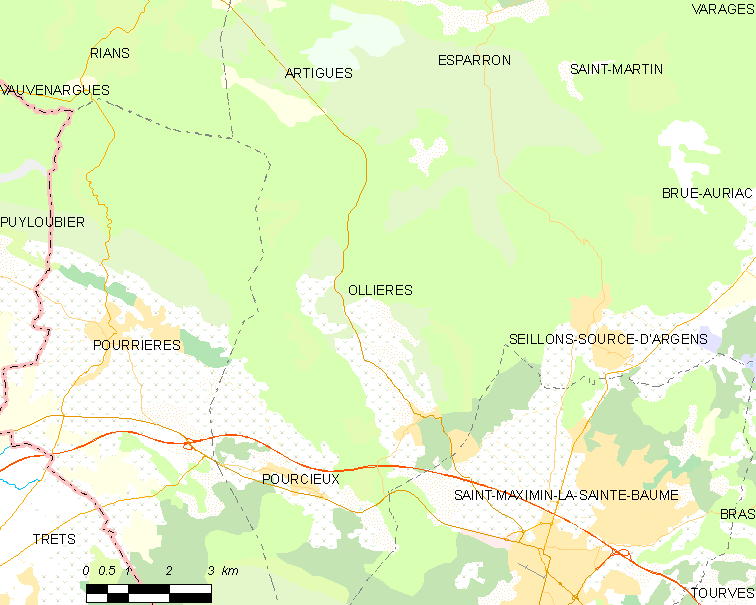 Map of French municipality Ollières